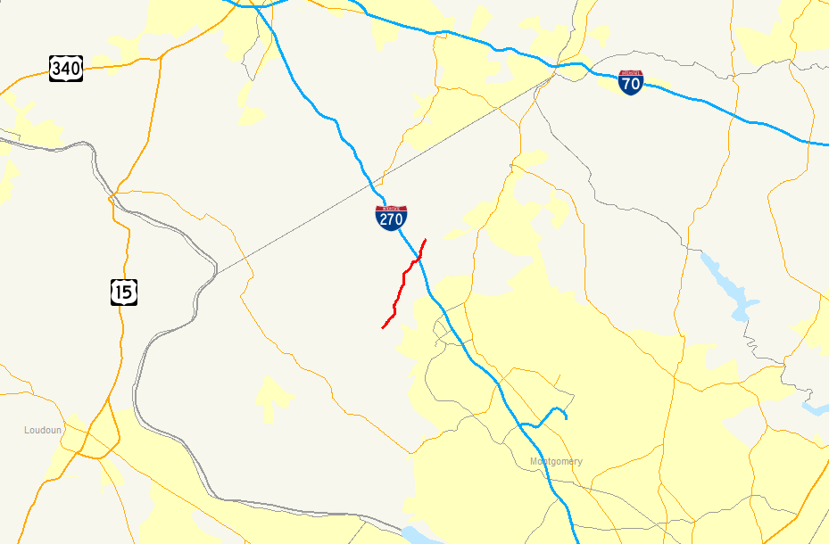 Map of Maryland Route 121